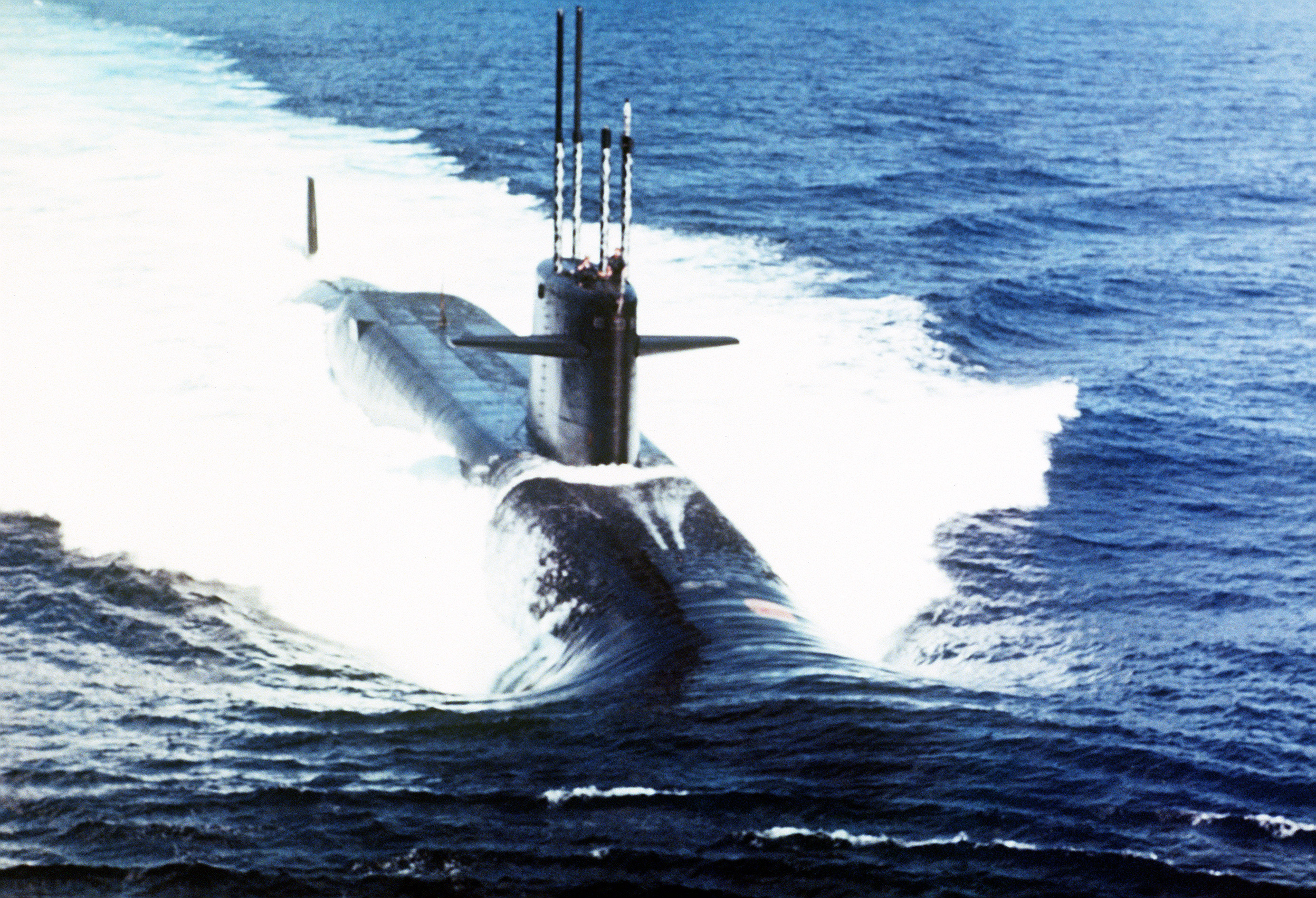 A starboard bow view of the nuclear-powered strategic missile submarine USS ANDREW JACKSON (SSBN-619) underway.